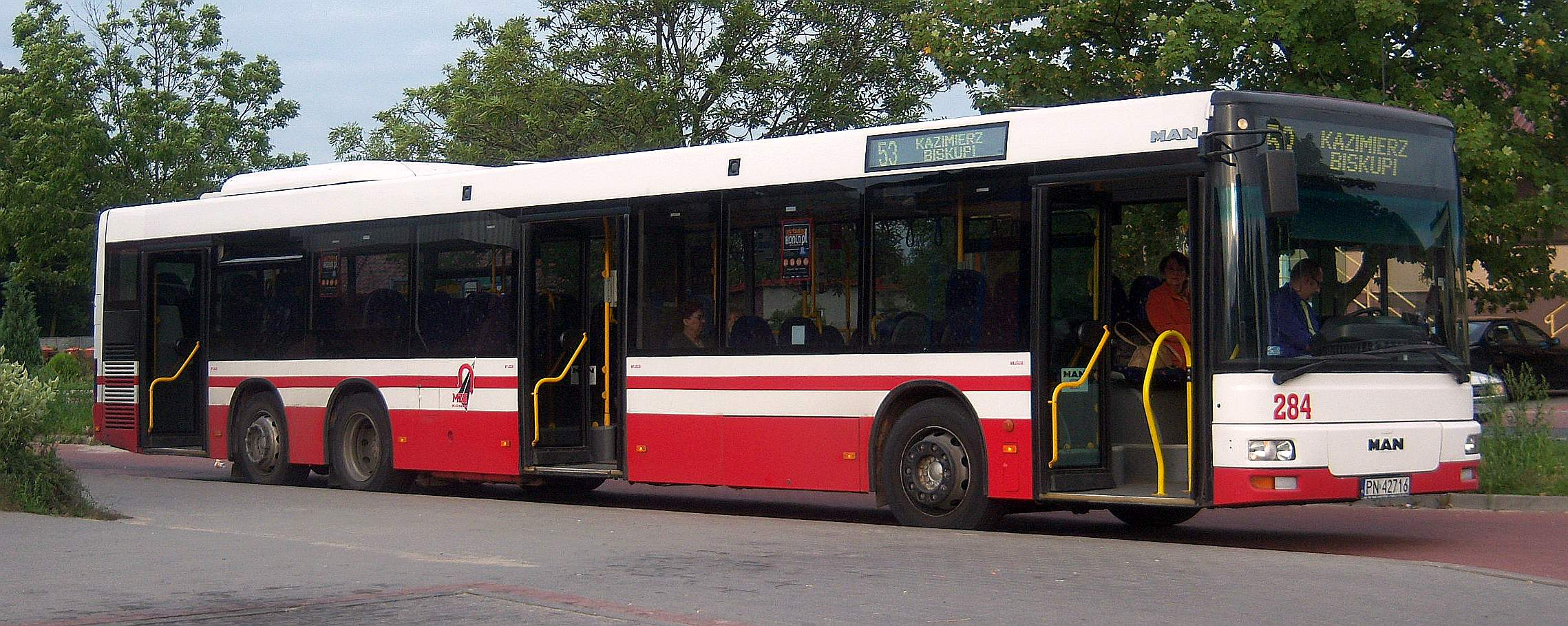 MAN NL313-15 bus (#284) in Stare Miasto village near Konin, Poland (Line 53 - drive to Kazimierz Biskupi). Built 2003, MZK Konin operator.